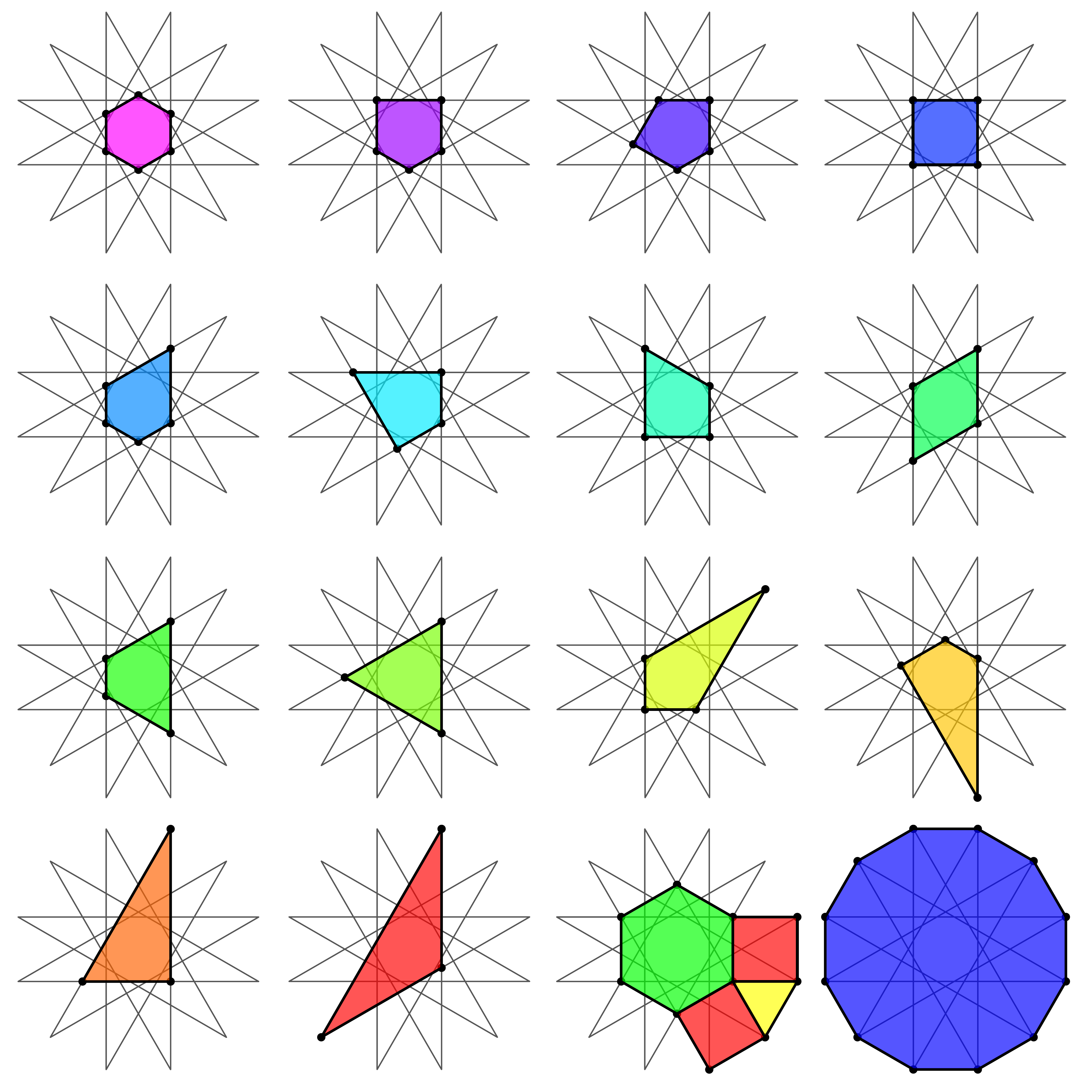 Construction of regular polygons and vertex regular planigons of arbitrary uniform tilings from the 6-5 dodecagram. This dodecagram has edges spanning 150 degrees. There are 4 regular polygons and 14 vertex regular planigons (the regular octagon and the isosceles right triangle cannot be used).